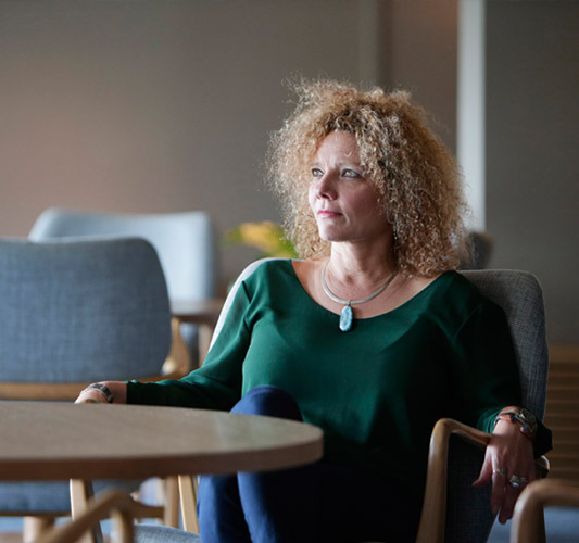 Karla Suarez